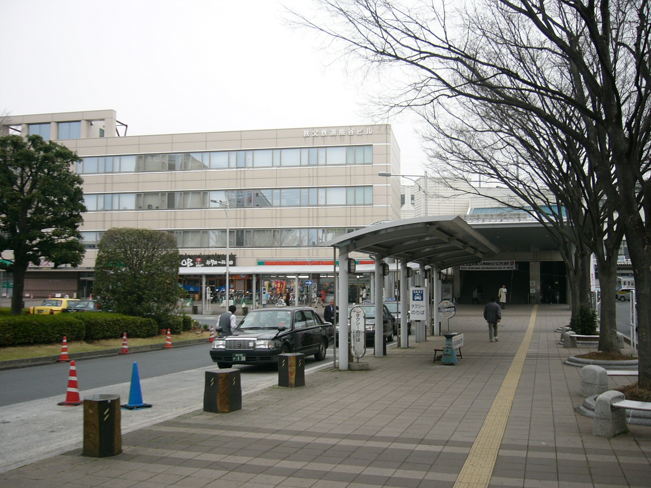 Kumagaya Station (South Entrance)